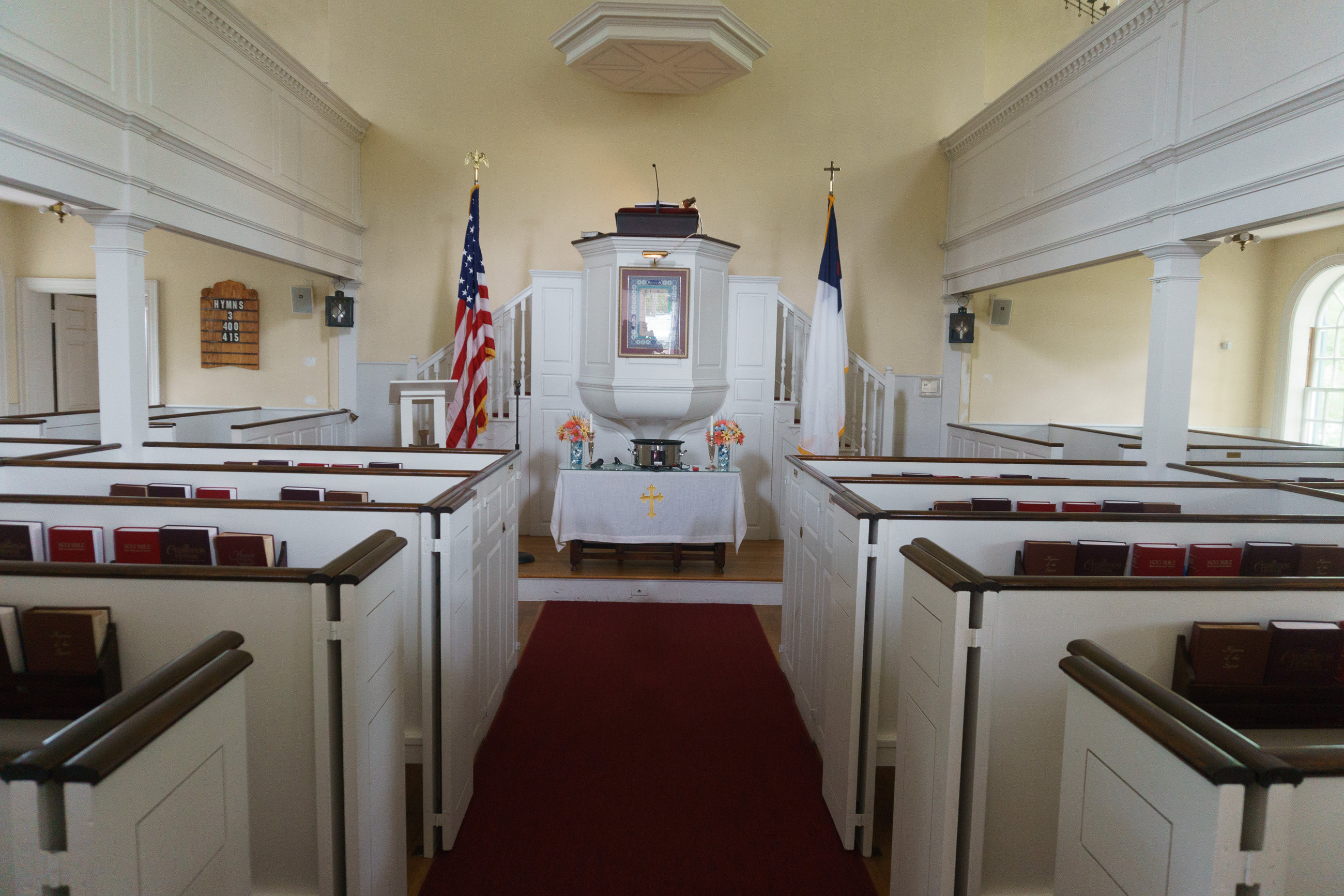 Dighton Community Church, Dighton, Massachusetts. Interior. Taken 2015.